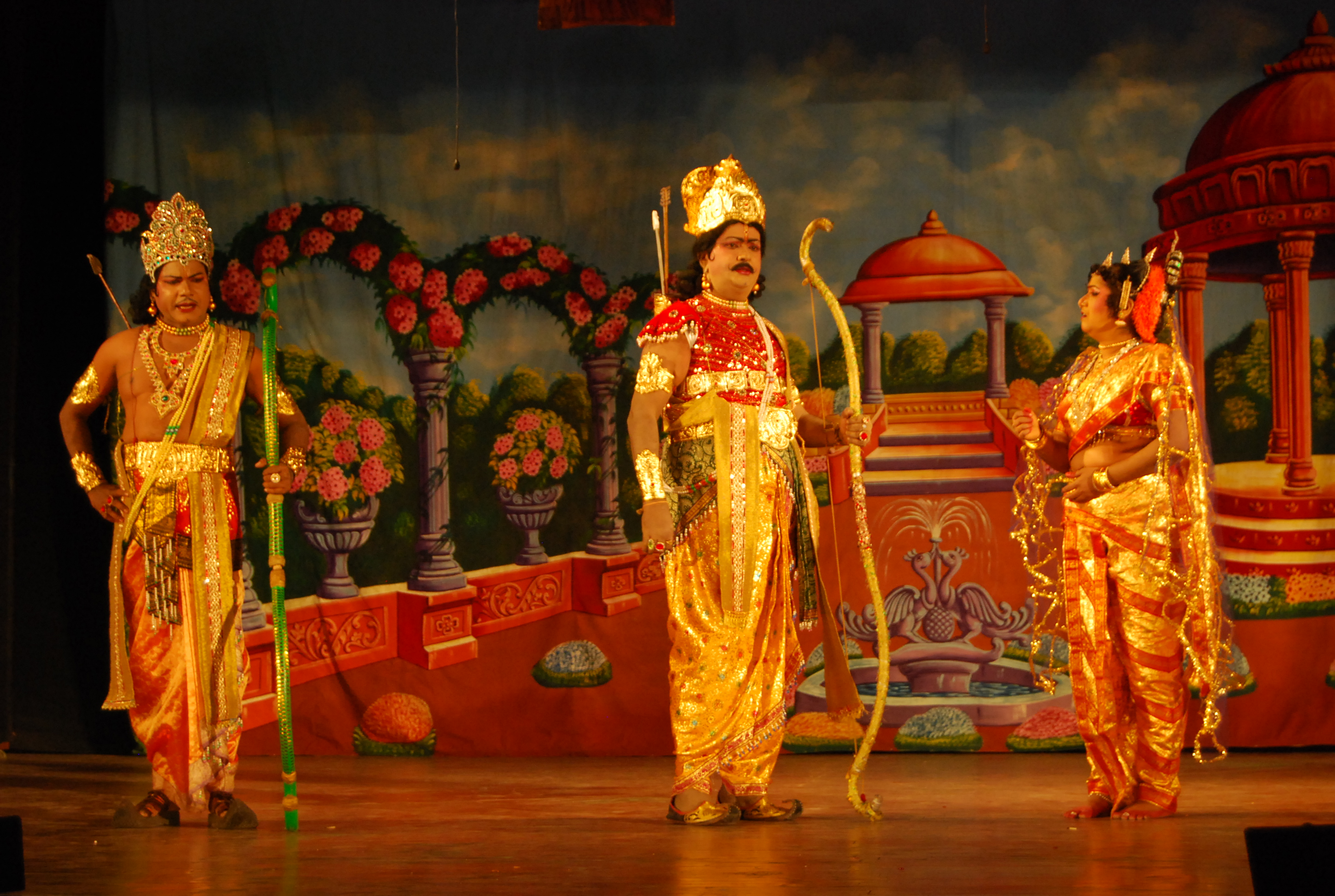 Sekhar Babu Pandilla as Arjuna,Akki Reddy as Babhruvahana and Surabhi Rama Laxmi as Chitrangada.